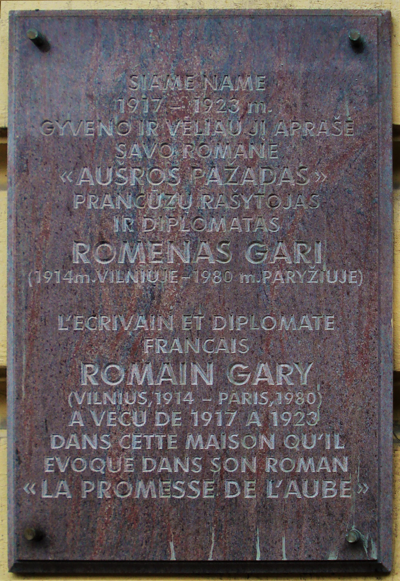 Romain Gary (1914–1980; French novelist, film director, World War II pilot, and diplomat) memorial tablet in Vilnius (Jono Basanaviciaus g. 18)